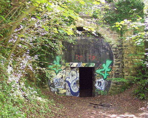 Combe Down Tunnel, near Bath